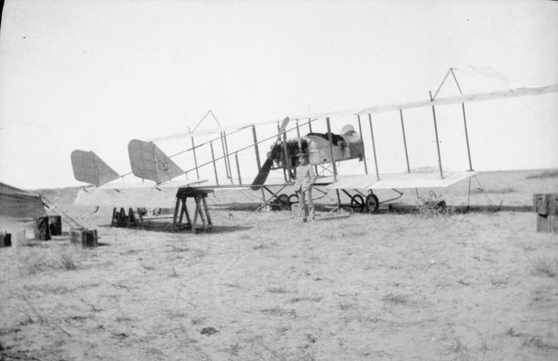 Knatchbull M (capt the Hon) Collection No. 5 Squadron R. N. A. S. Flight Commander R. Marix, D. S. O., and his Maurice Farman aeroplane: Tenedos, Gallipoli.